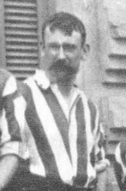 Argentine football player Andrés Mack, photographed with the Alumni Athletic Club where he played his entire career.